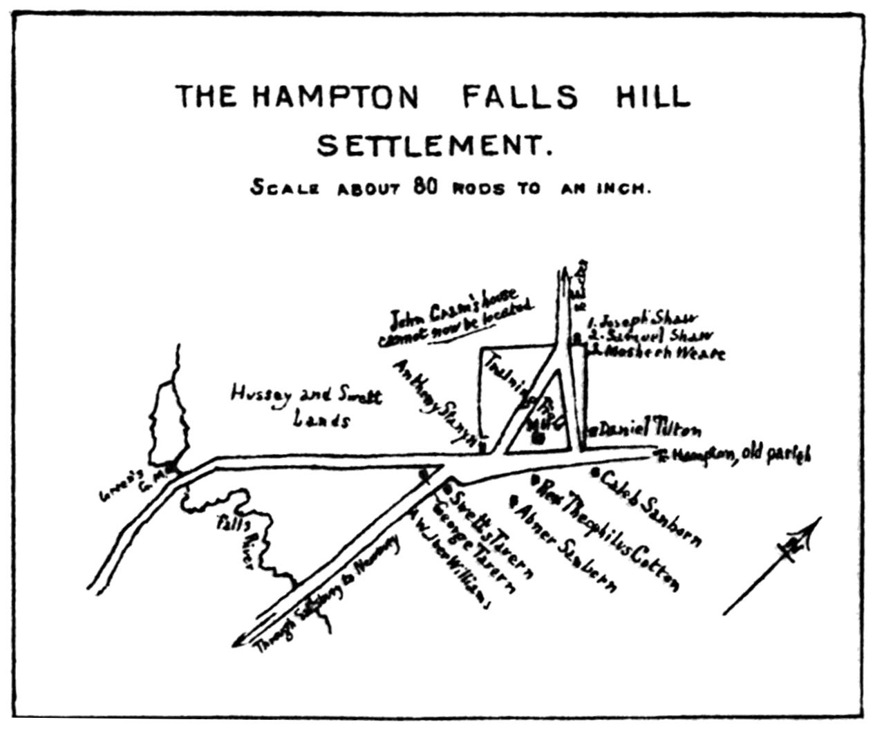 A map of what is now Hampton Falls, in 1638. Directly from , but was from the book History of Hampton, published in 1892.